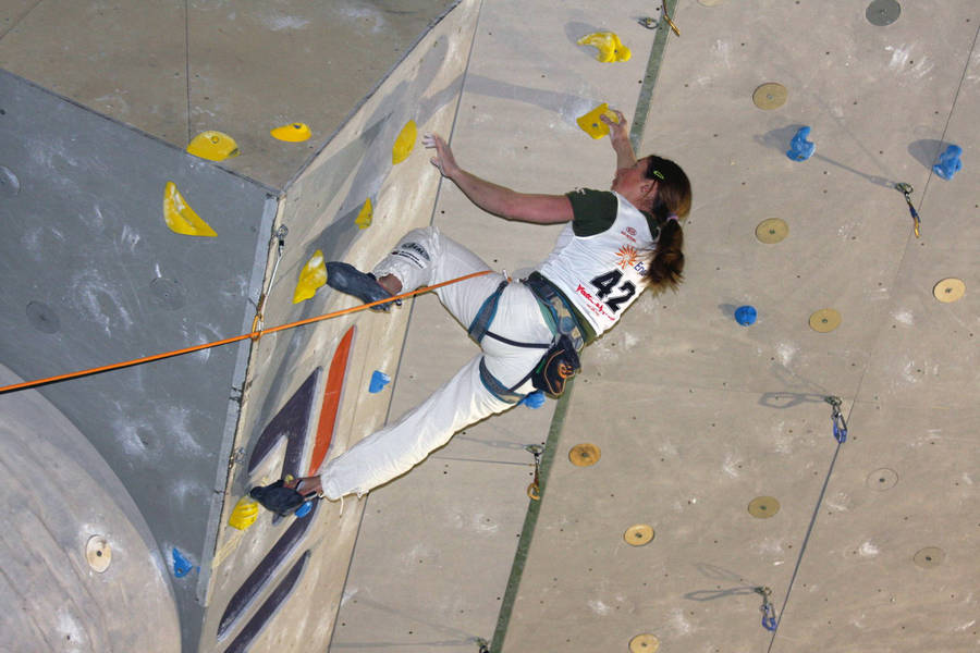 Martina Čufar at the 2010 Winter Military World Games